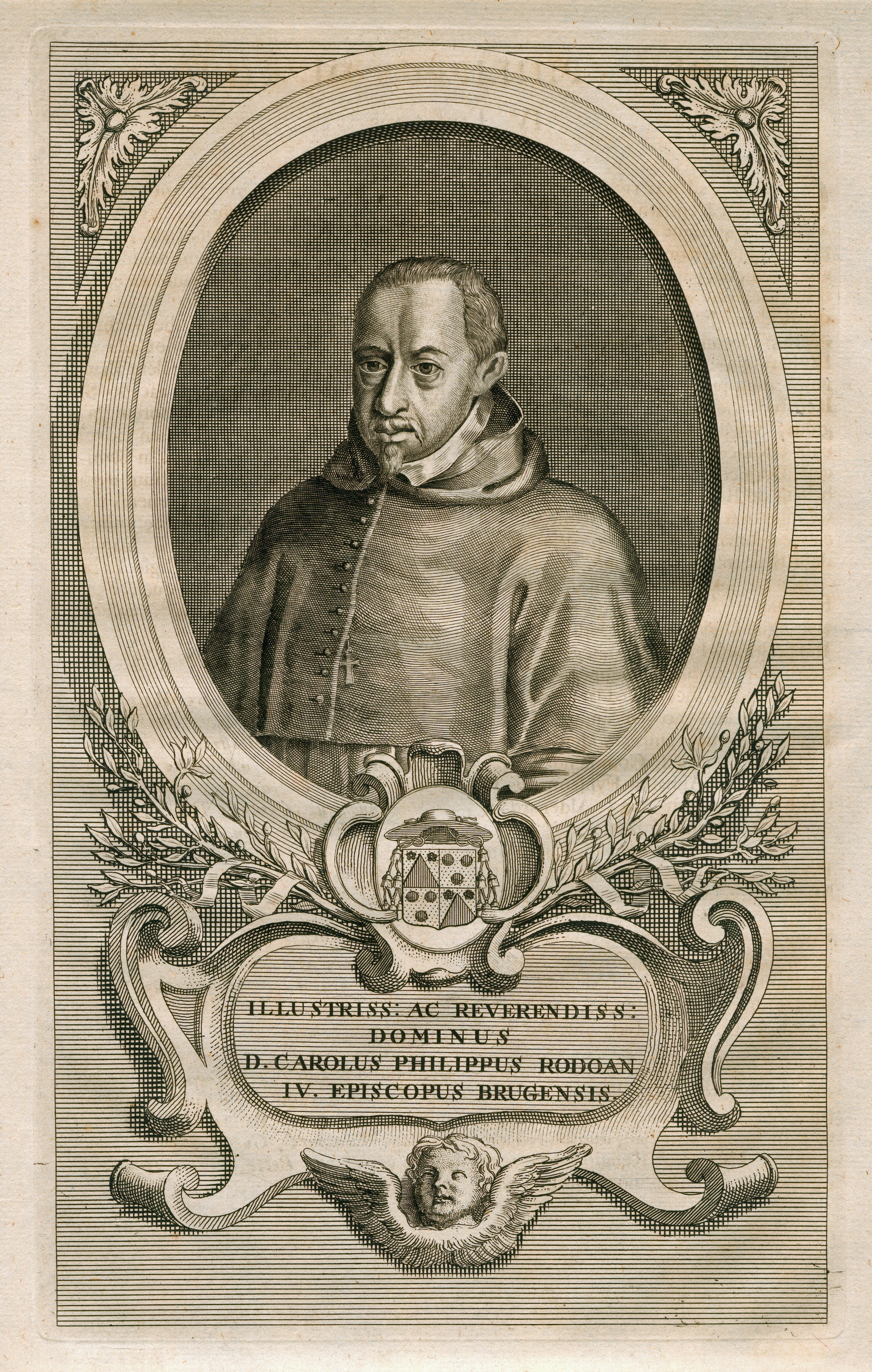 Carolus Philippus de Rodoan (1552-1616), fourth bishop of Bruges